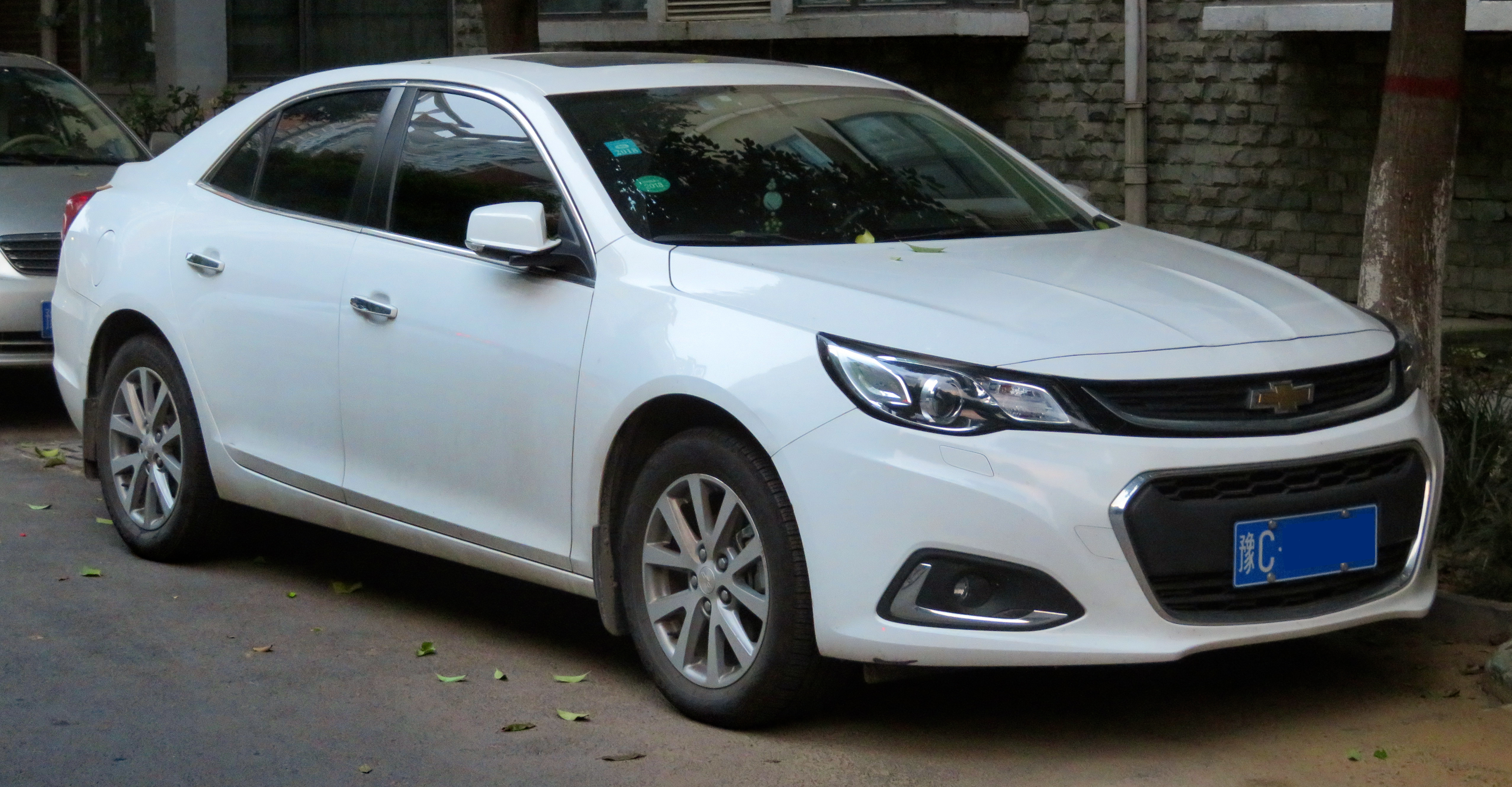 A 2014 SAIC-GM-Chevrolet Malibu facelift photographed in Luolong District, Luoyang, Henan province, China